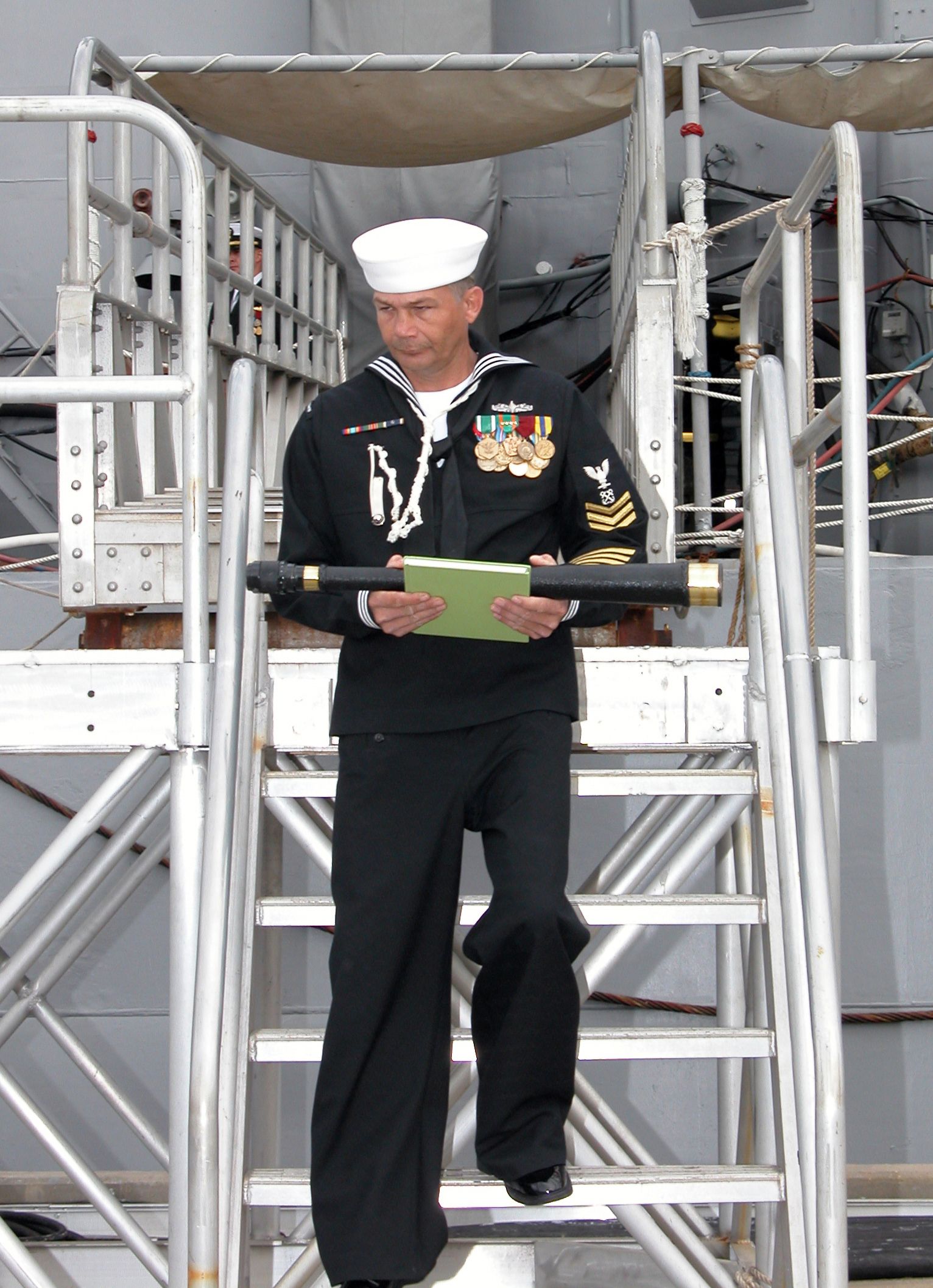 Boatswain’s Mate 1st Class Lonnie Ellis carries the logbook and spyglass off the guided missile cruiser USS Yorktown (CG 48) as she is decommissioned on board Naval Station Pascagoula, Miss. Yorktown has a proud 20-year history of service to her country and is the fifth ship to bear the name Yorktown. Following her decommissioning, the ship will be towed and transferred to the Inactive Ships Maintenance Facility in Philadelphia, Pa.